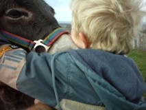 Onotherapy_poland.jpg